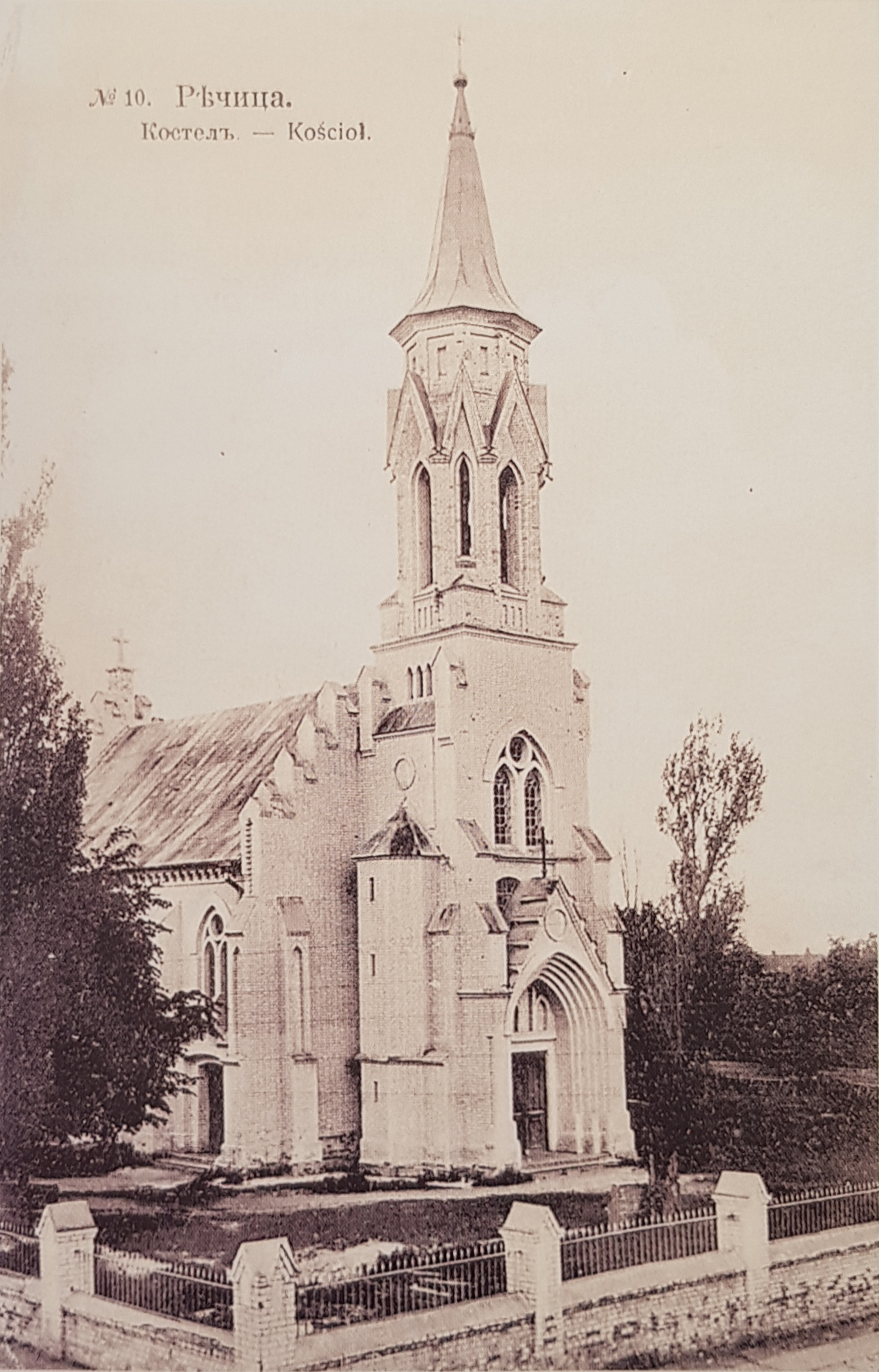 Catholic Church in Rečyca